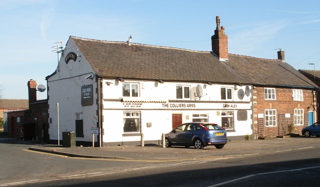 Colliers Arms, Tyldesley The Colliers Arms is an ancient building on Sale Lane Tyldesley. It is a reminder that Tyldesley once had several collieries. The adjoining cottage is a listed building dating from the late 17th century.